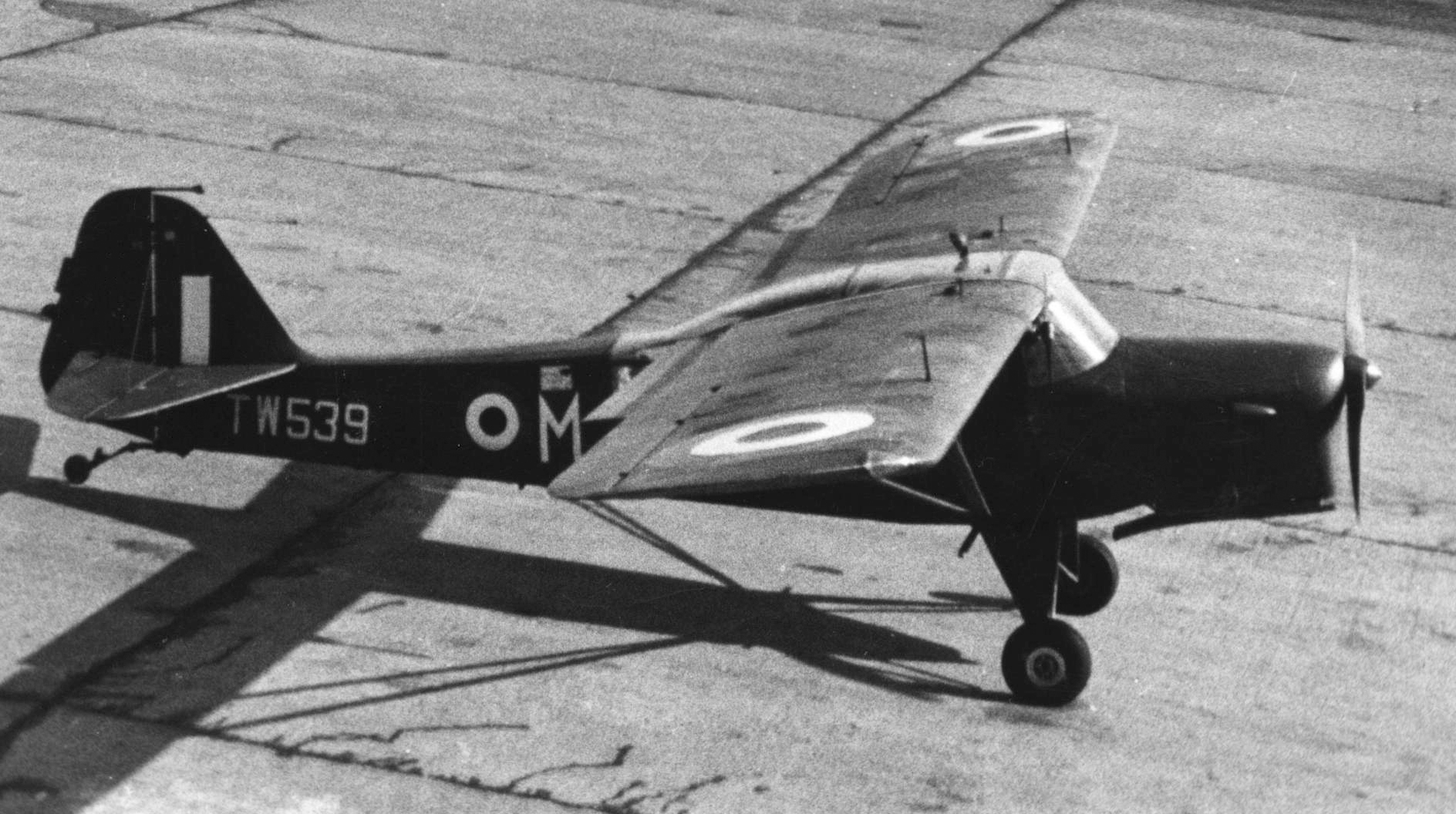 Auster AOP.6 TW539 of 663 (AOP) Squadron